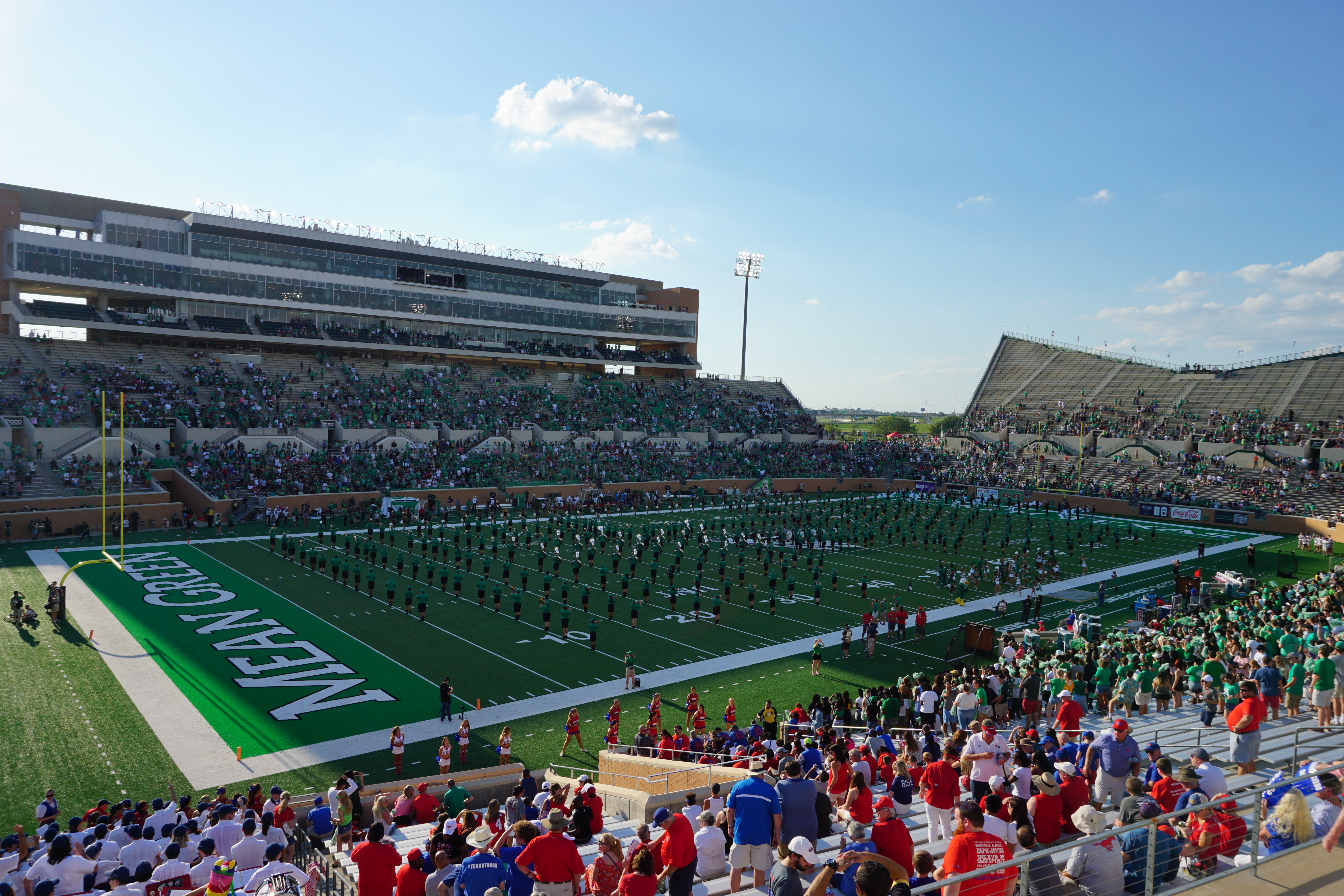 The Green Brigade Marching Band performing before the Southern Methodist Mustangs vs. North Texas Mean Green football game at Apogee Stadium in Denton, Texas (United States). North Texas won 46–23.